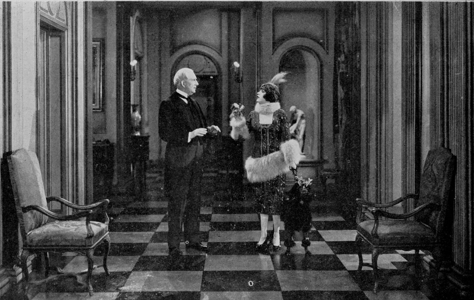 The fiery vixen Suzette (Renée Adorée) is enraged to learn of Sir Nicholas' (Lew Cody) attentions to other women, and leaves in a flurry. (A scene from Man and Maid (1925) for Metro-Goldwyn-Mayer)